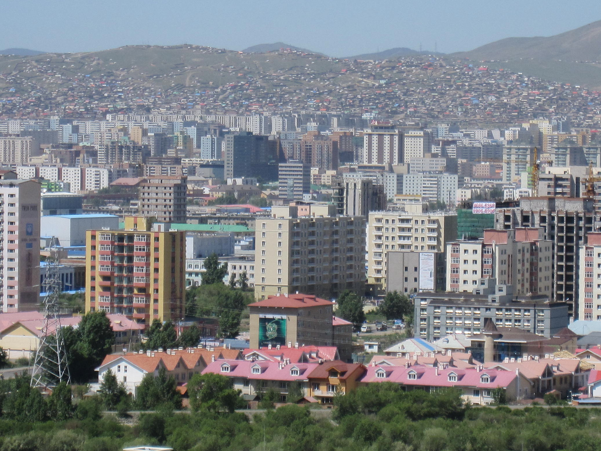 The View from Zaisan Tolgoi in Ulaanbaatar